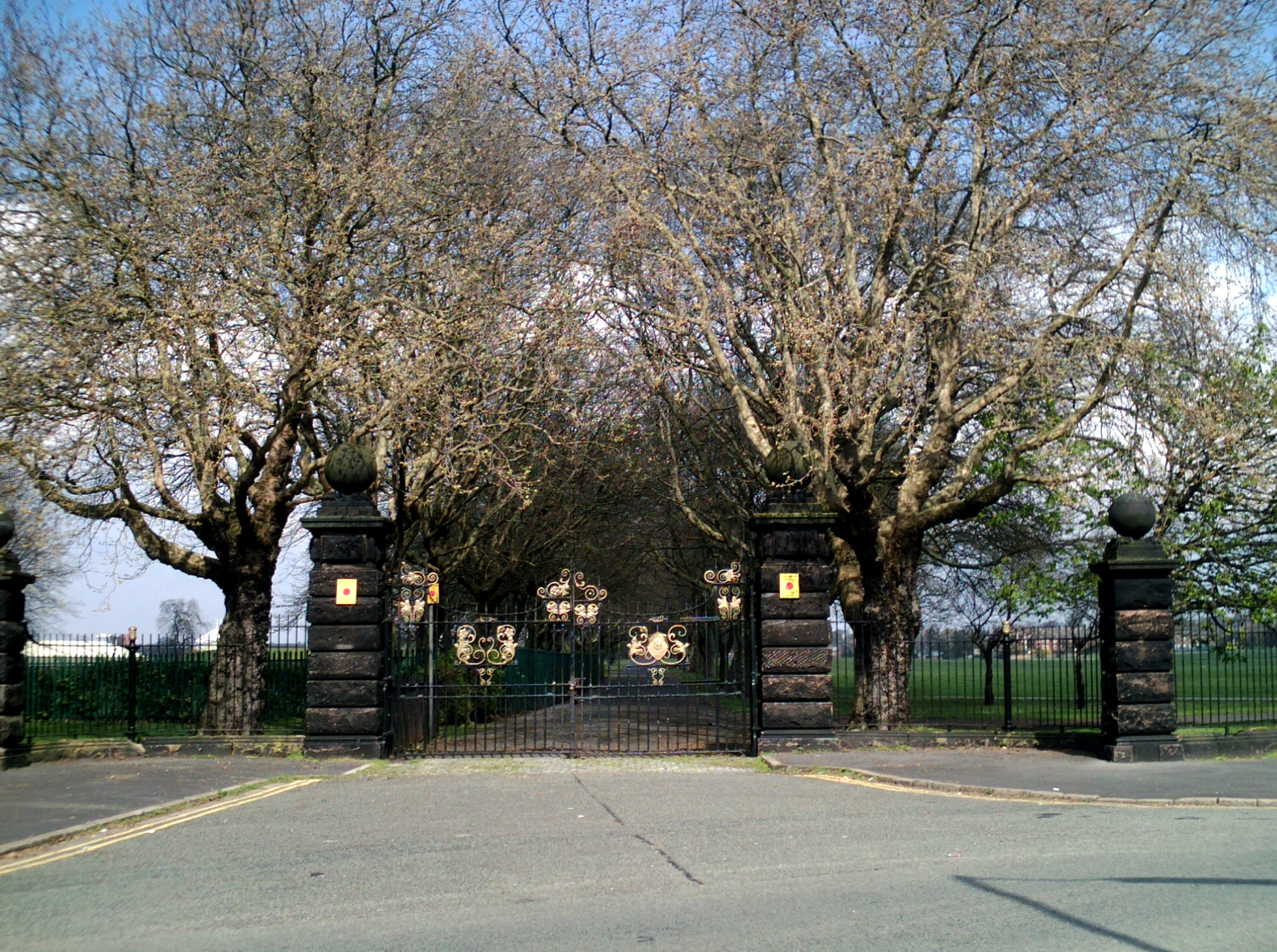 Main gates of Wavertree Playground ("The Mystery"), Grant Avenue, Liverpool.